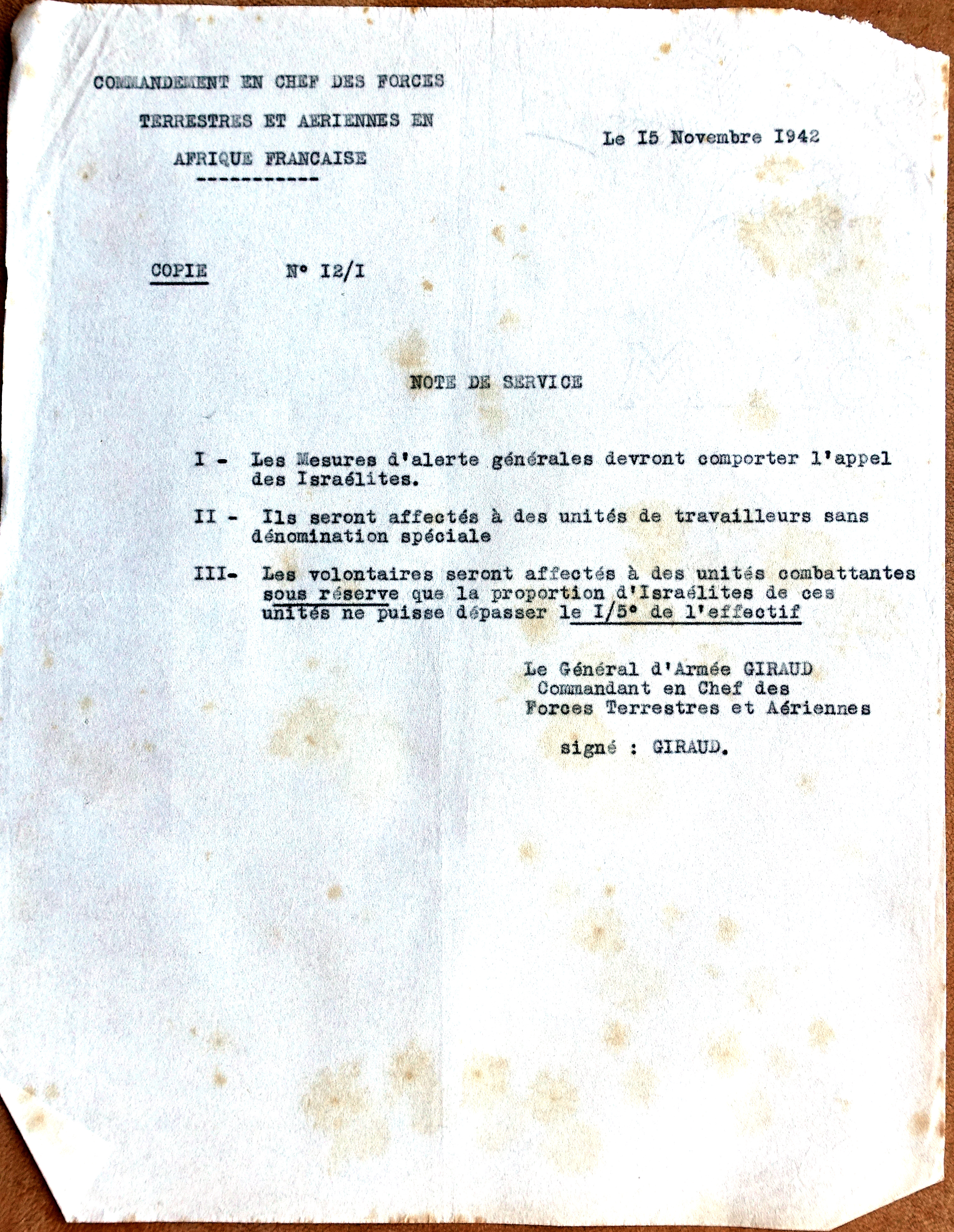 This memorandum, dated November 15, 1942, issued from the highest level of military and civilian command in French Africa after the Allied landings in Morocco and Algeria, describes the procedure deployed to prevent Jewish French from joining the fighting units against the Axis forces, prolonging the anti-Semitic policy of Vichy.